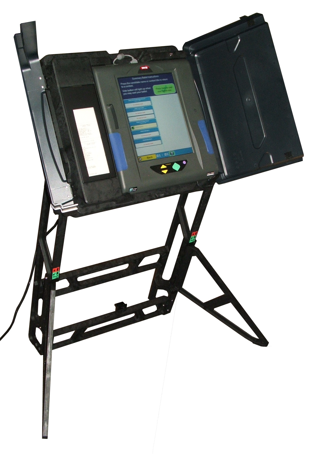 Election Systems & Software iVotronic direct-recording electronic voting machine equipped with what ES&S refers to as a Real-Time Audit Log printer, a type of voter-verified paper audit trail.